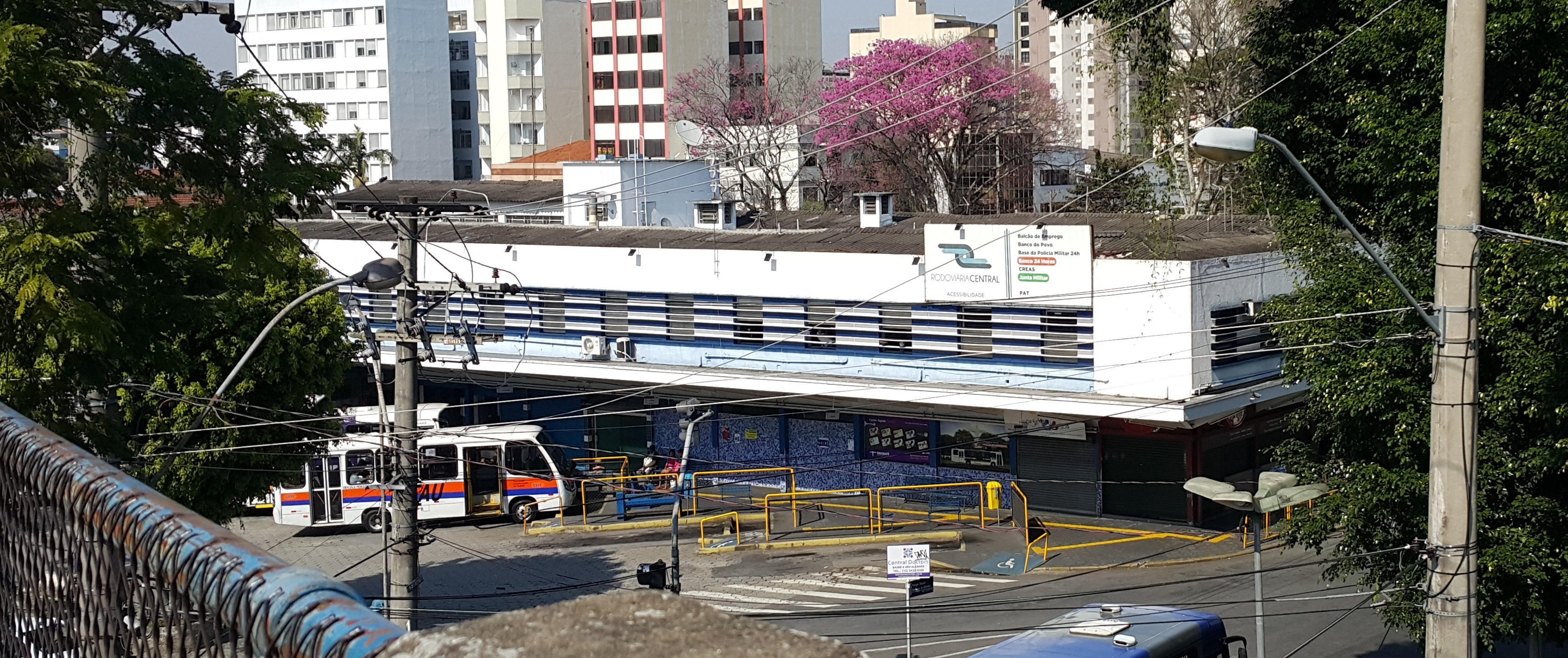 The Taubaté Urban Terminal, more known as Rodoviária Velha ("Old Bus Station"), seen from above a footbridge on top of the railway that cross Taubaté. São Paulo, Brazil.